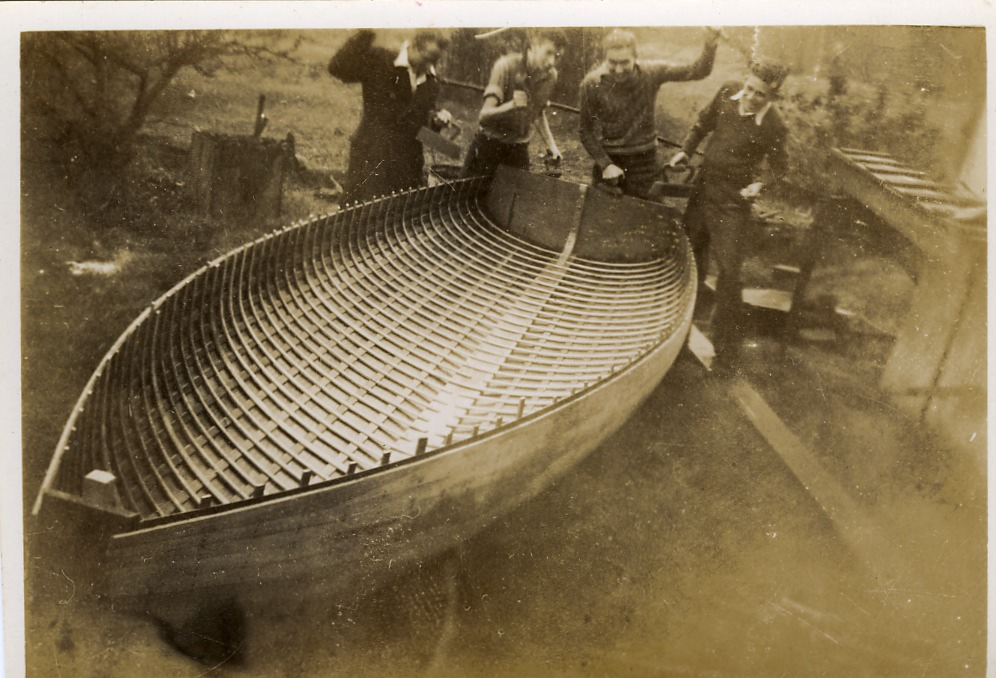 Bryce Mortlock (3rd from left) and Alan Payne (right) building the first Payne-Mortlock Sailing Canoe